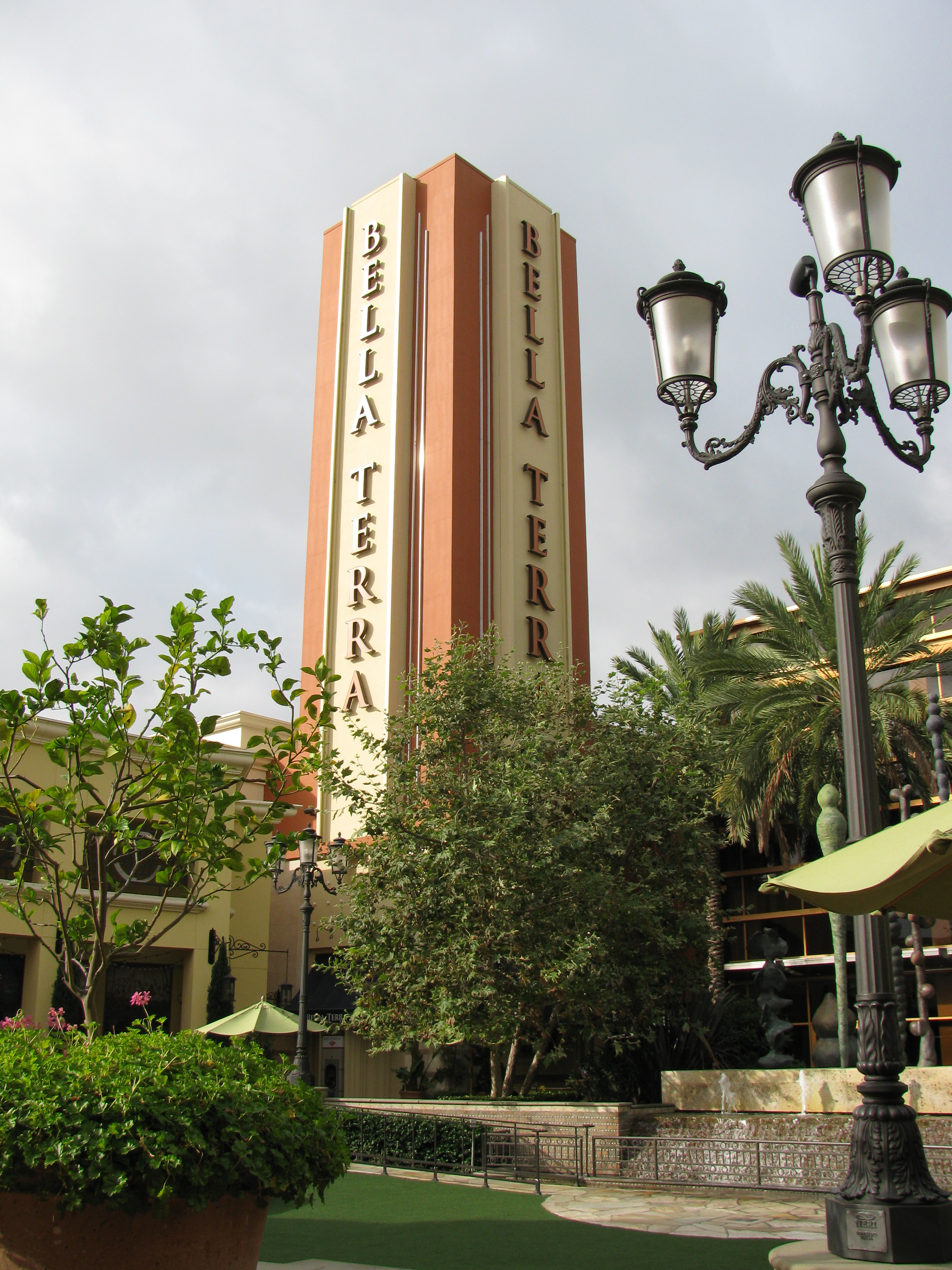 Bella Terra mall in Huntington Beach, CA.